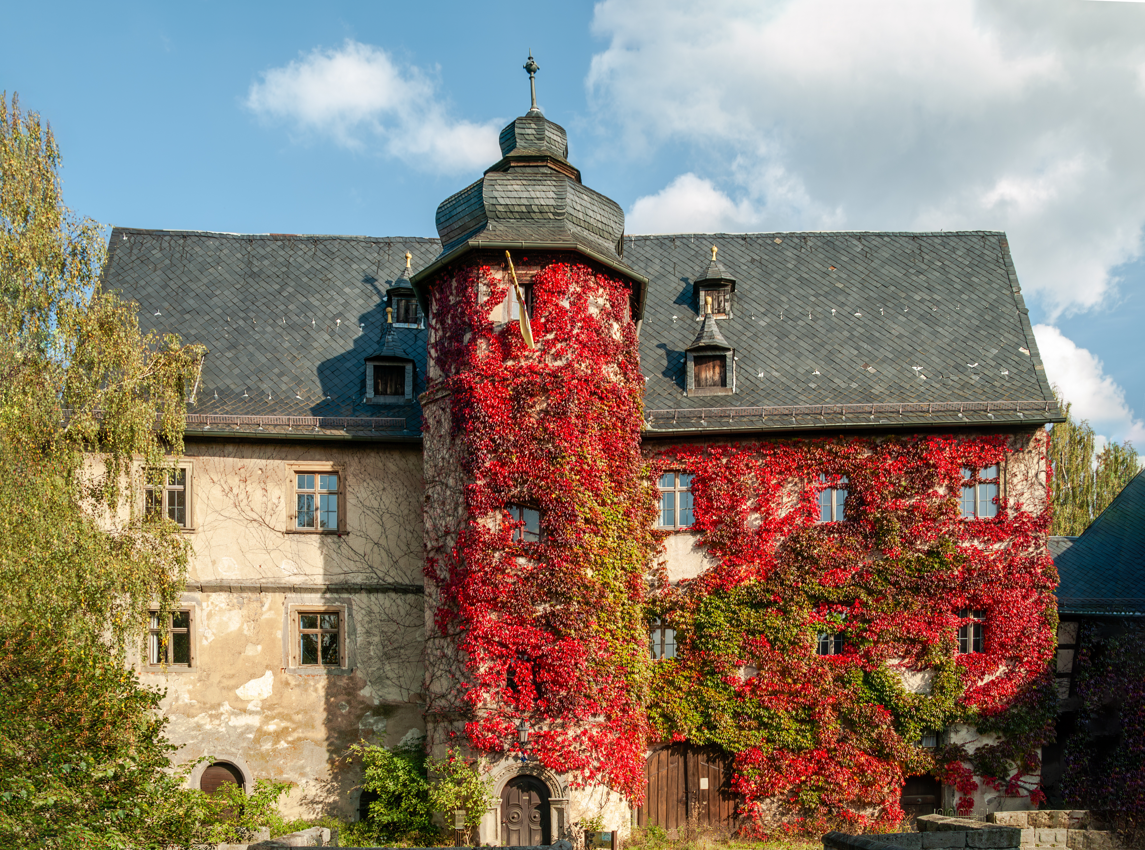 Castle in Ebelsbach